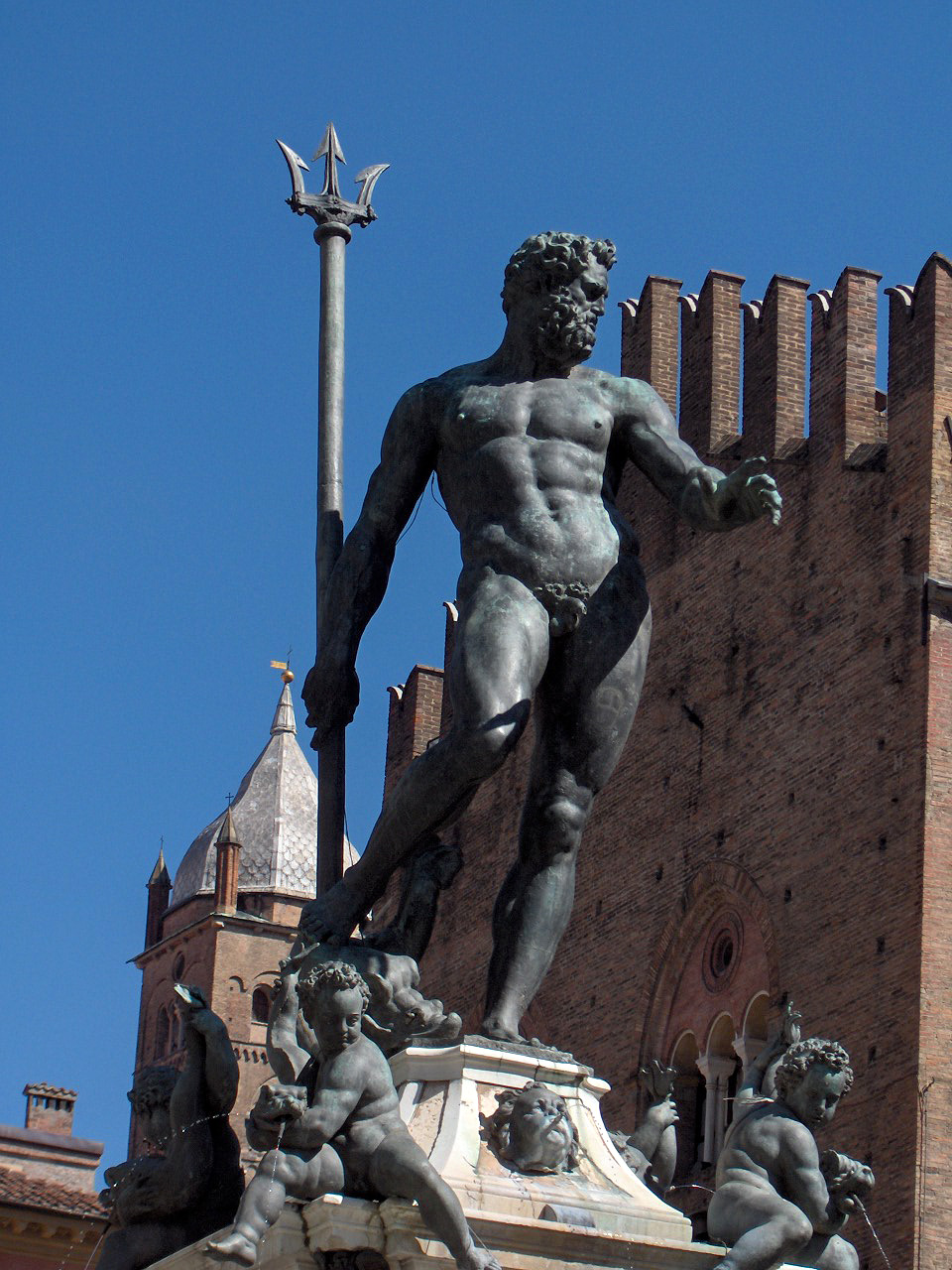 The Fountain of Neptune, by Jean de Boulogne, in "Piazza Maggiore" square at Bologna, Italy.